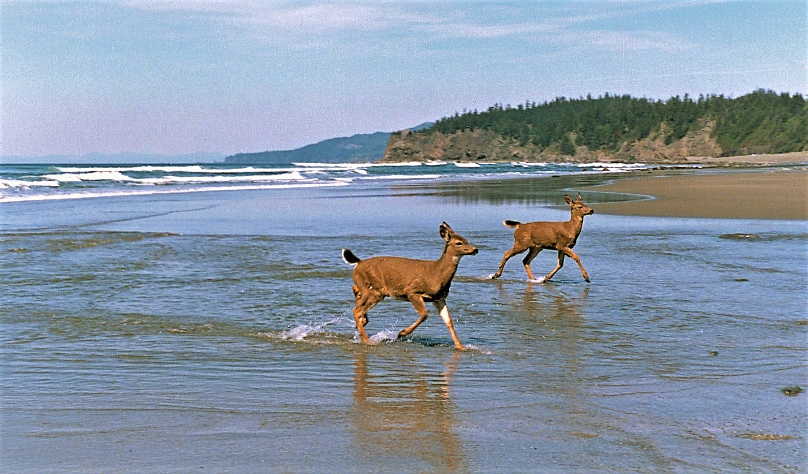 Two black-tailed deer on Shi Shi Beach, Olympic National Park, Washington state. May 1989